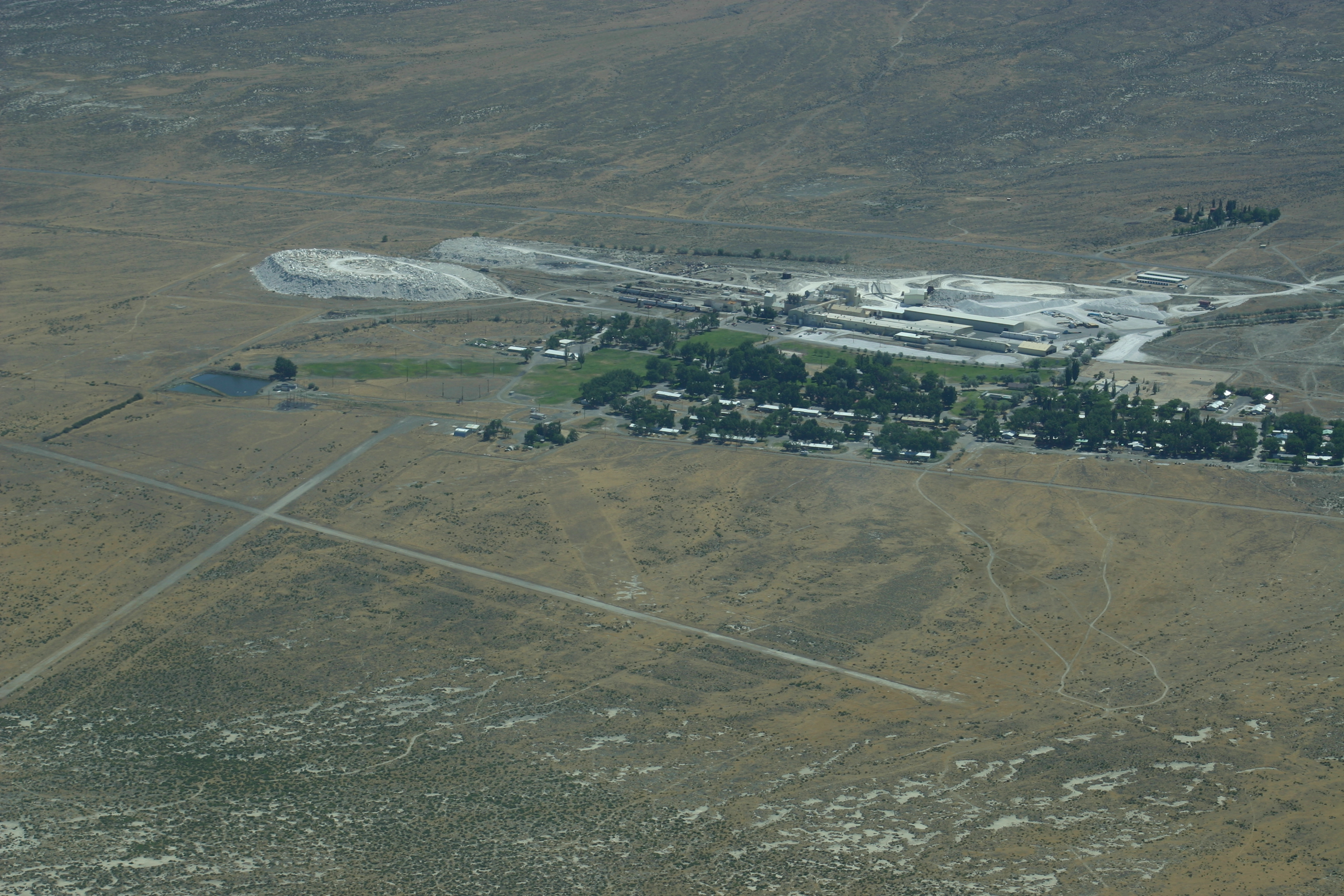 aerial photo of Empire Airport